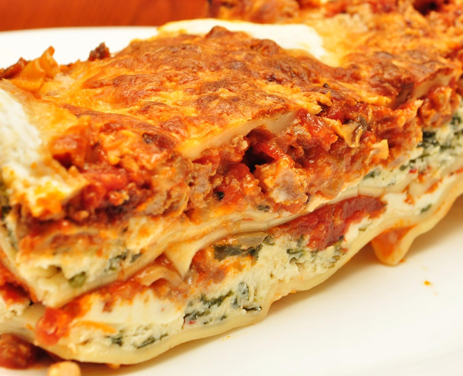 Mmm...better the next day lasagna.